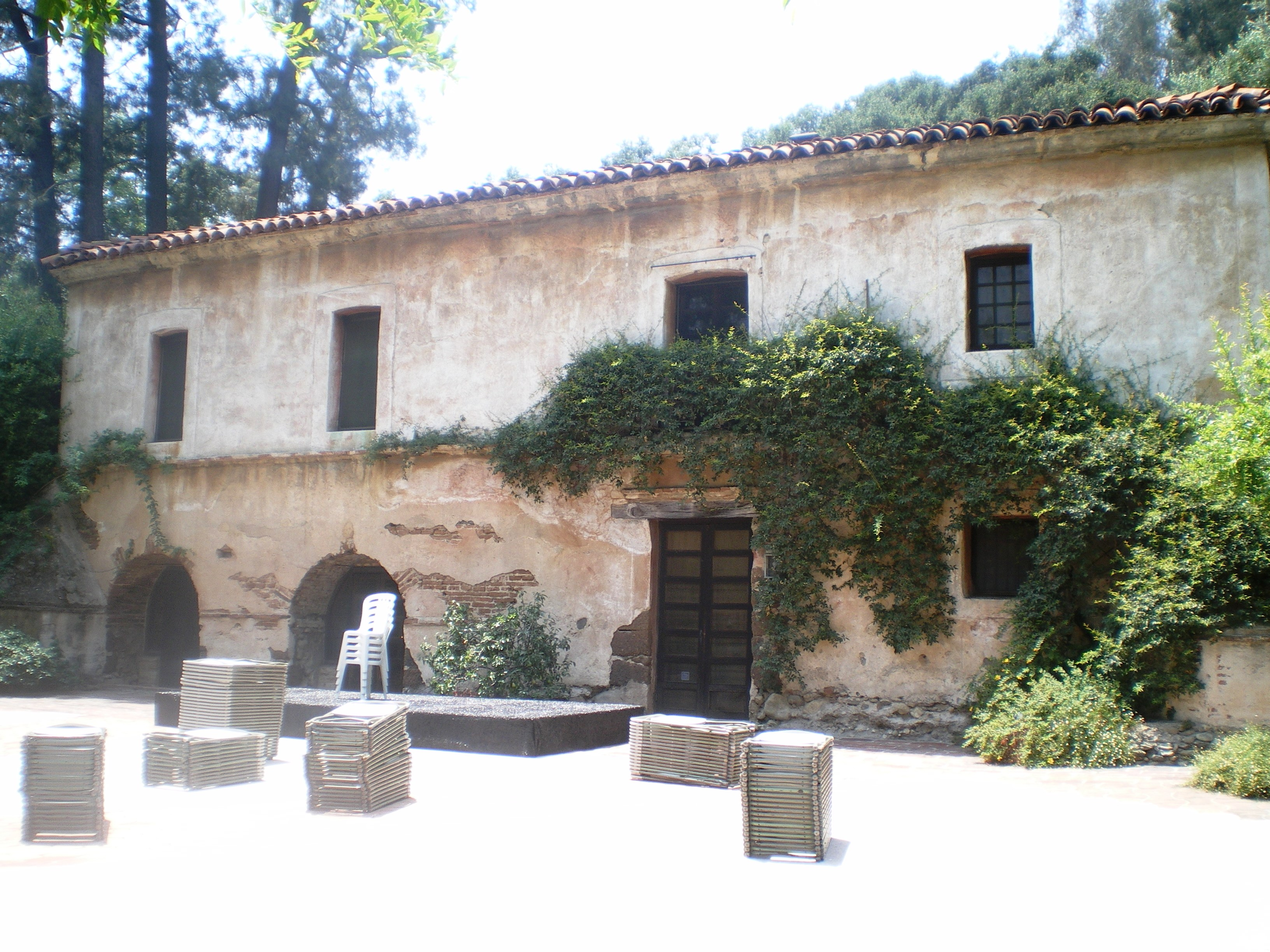 El Molino Viejo (back side), Old Mill Road, San Marino, California